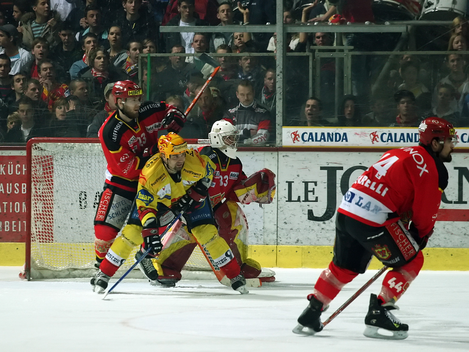 Playoffs NLA/NLB Icehockey Switzerland, SCL Tigers defeat EHC Biel by 4:1 wins